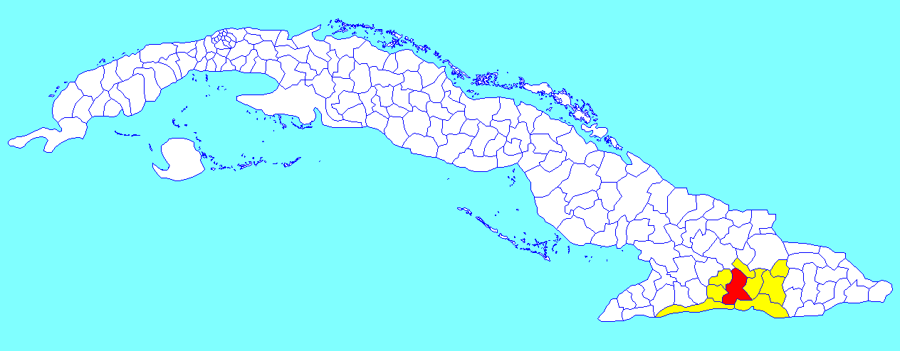 A map of the municipality of Palma Soriano (shown in red) within the Province of Santiago de Cuba (yellow) and Cuba.